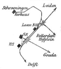 Excerpt from a map, published in 1936 by "Nederlandsche Spoorwegen", showing the historical situation at several Dutch railway stations in The Hague.